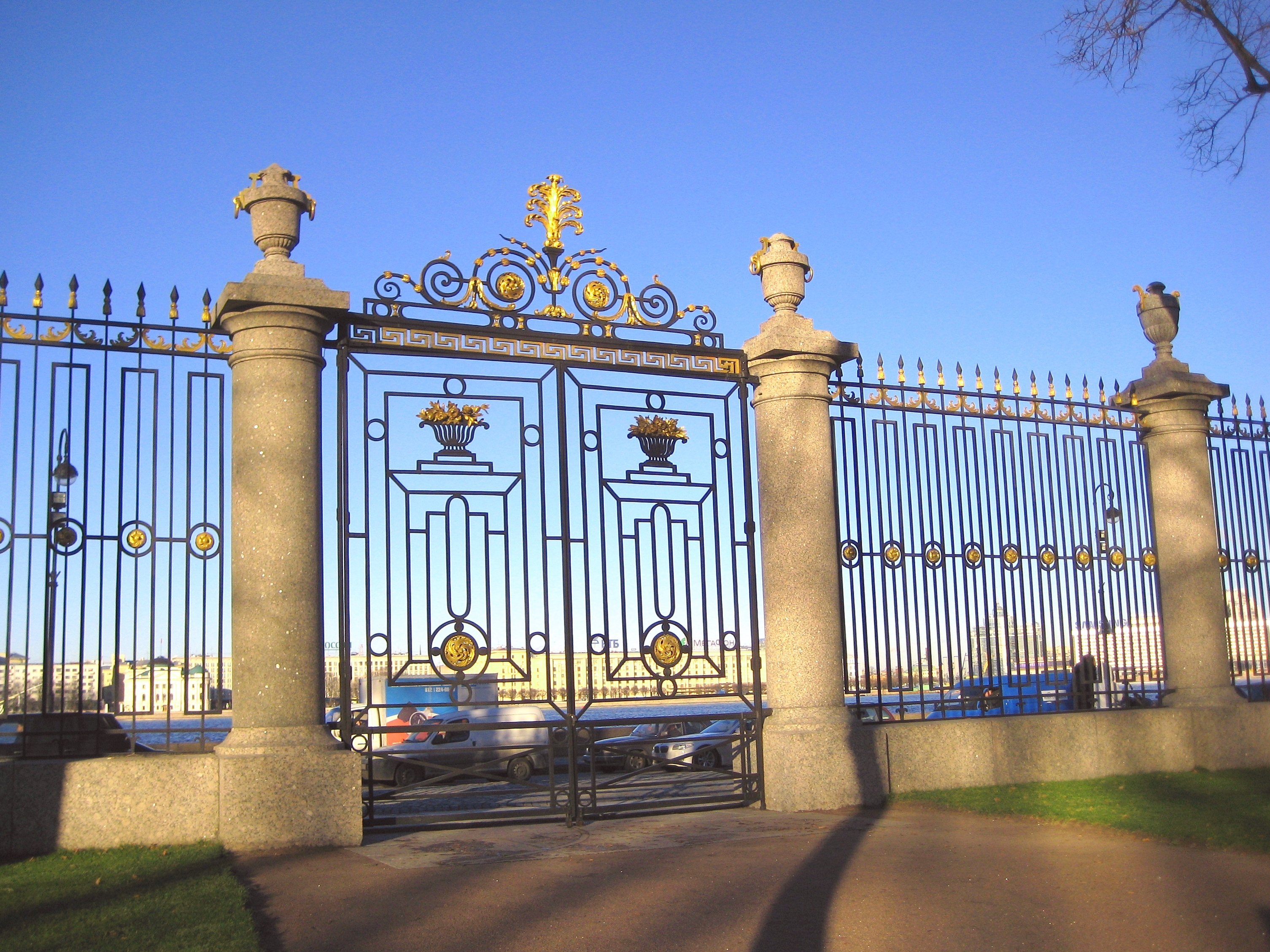 Lattice and gate from the Neva (arch. Felten Yu.M., Egorov P.E.), 1770-1784: Summer Garden. Dvortsovaya Embankment, Central District, St. Petersburg.